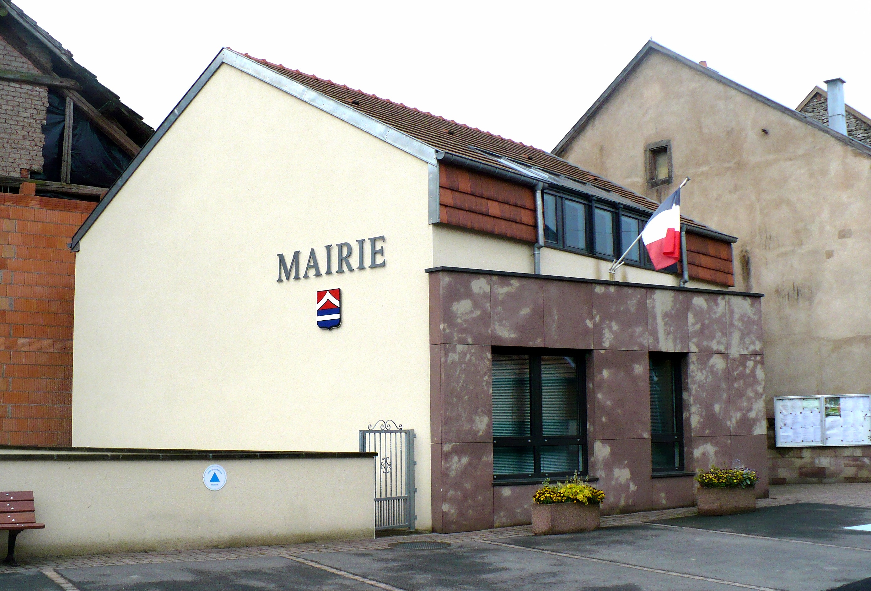 Town Hall of Wintersbourg east side (2014)